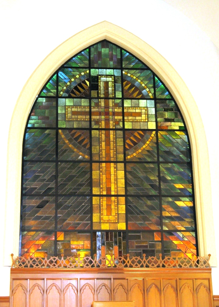 First Armenian Evangelical Church's cross (vitraille)Beirut, Lebanon.